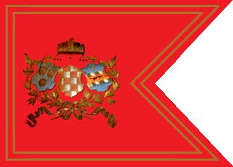 Royal Bans Standard, Rauch, period 1868-1871